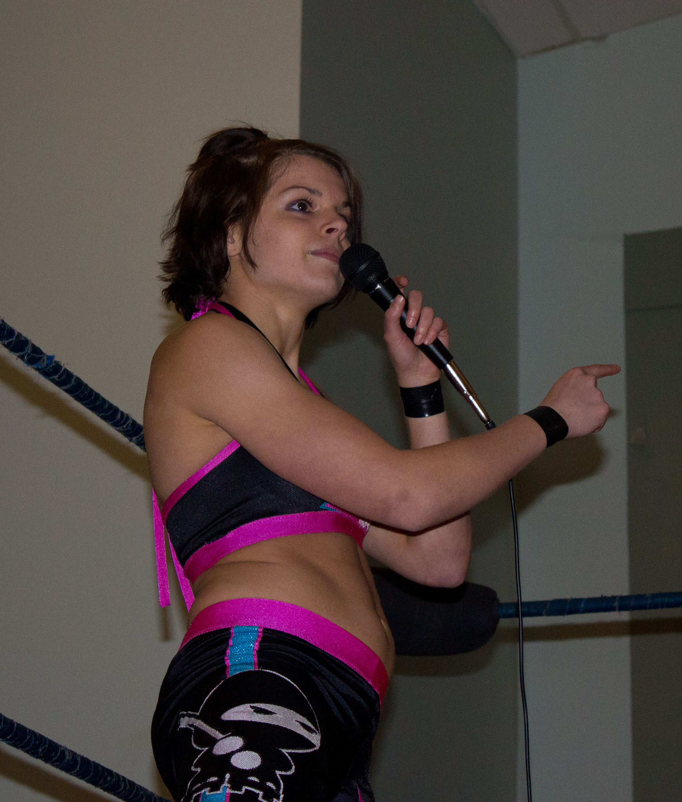 Portia Perez speaking at an indy wrestling show in Brooklin, ON